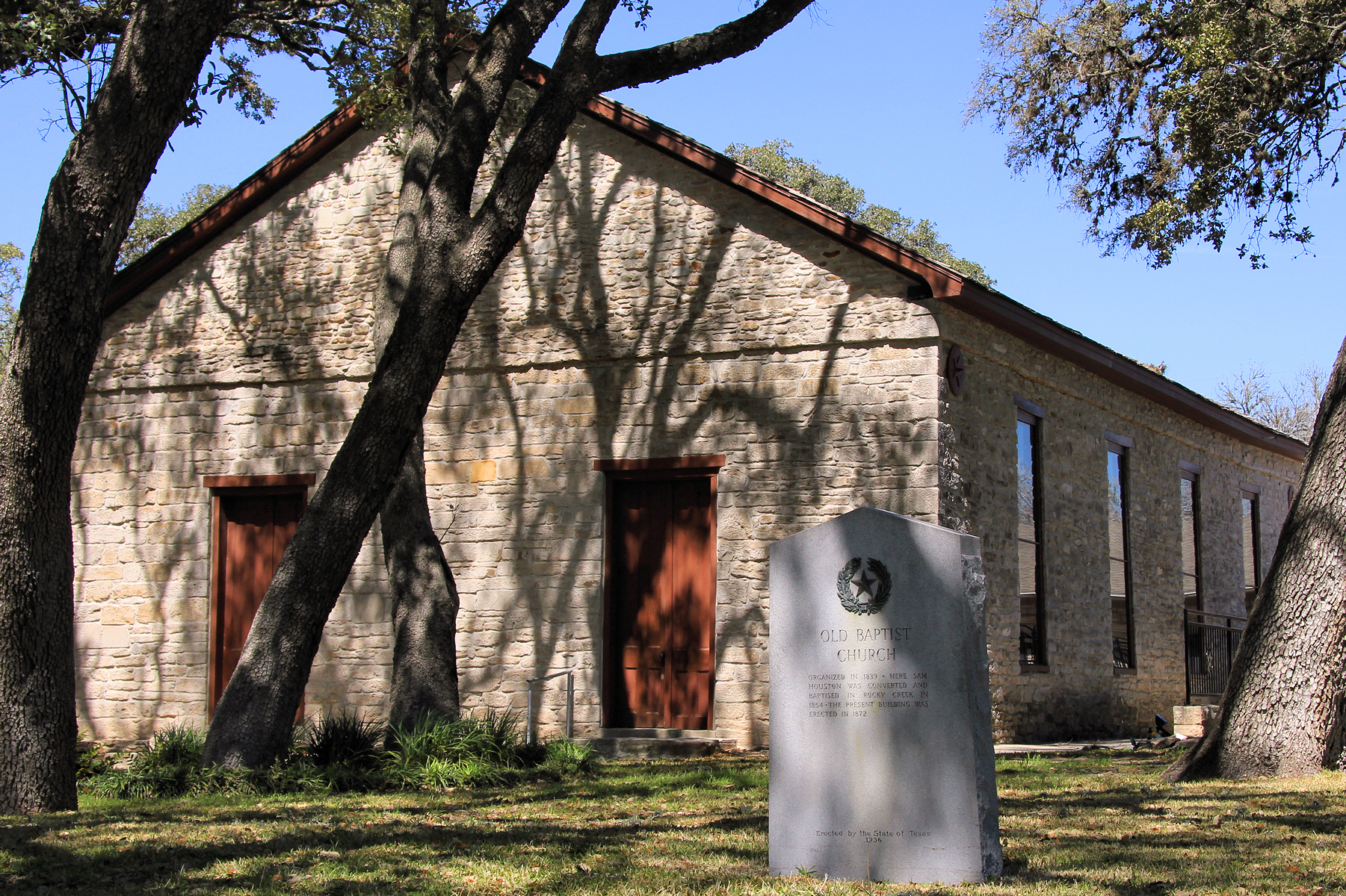 Independence Baptist Church, Independence, Texas, United States. The building was designated a Recorded Texas Historic Landmark in 2003. Sam Houston was a member of this church and was baptized in a nearby creek.